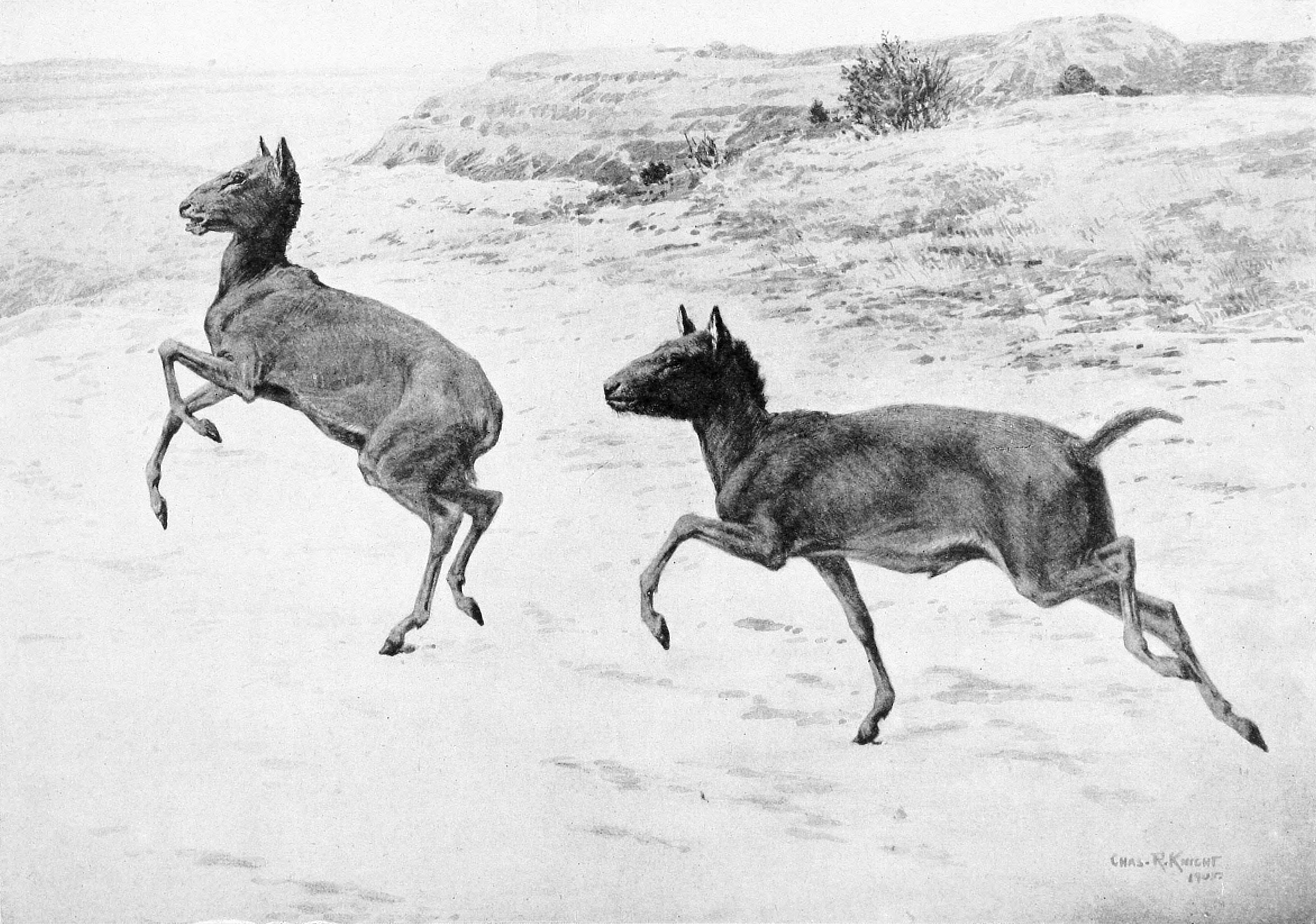 Thoatherium minusculum, a prehistoric sudamerican mammal.